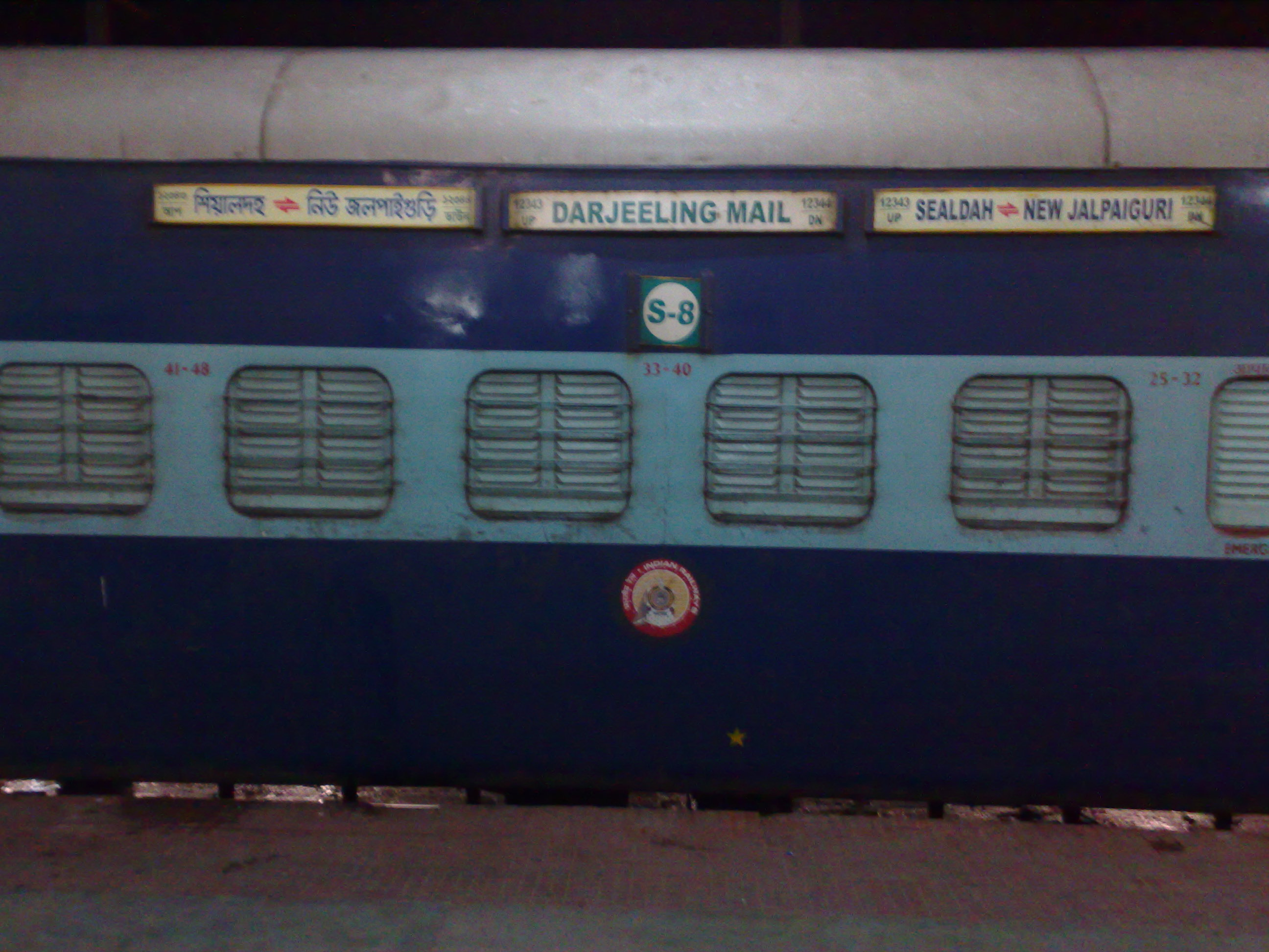 Darjeeling Mail - Sleeper Class